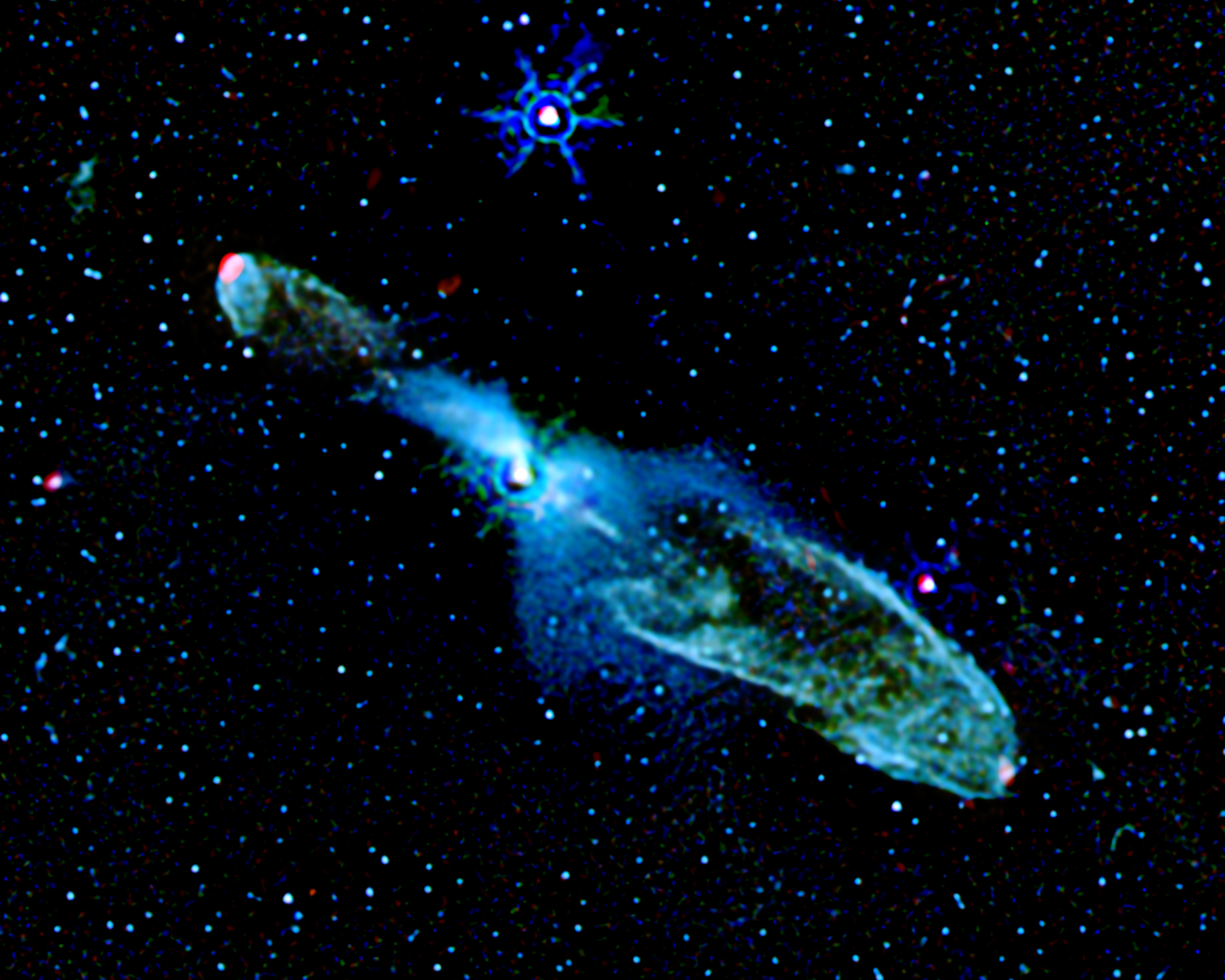 A new image from NASA's Spitzer Space Telescope shows a baby star 1,140 light-years away from Earth blowing two massive "bubbles." But instead of bubble gum, this youngster, called HH 46/47, is using powerful jets of gas to make bubbles in outer space. The infant star can be seen as a white spot toward the center of the Spitzer image. The two bubbles are shown as hollow elliptical shells of bluish-green material extending from the star. Wisps of green in the image reveal warm molecular hydrogen gas, while the bluish tints are from starlight scattered by surrounding dust. These bubbles formed when powerful jets of gas, traveling at 200 to 300 kilometers per second, or about 120 to 190 miles per second, smashed into the cosmic cloud of gas and dust that surrounds HH 46/47. Red specks at the end of each bubble show the presence of hot sulfur and iron gas where the star's narrow jets are currently crashing head-on into the cosmic cloud's gas and dust material. According to Dr. Thangasamy Velusamy of NASA's Jet Propulsion Laboratory in Pasadena, Calif., baby stars and their potential planet-forming disks grow by gravitationally pulling in and absorbing surrounding gas and dust. Scientists suspect that these disks stop growing when the central baby star develops powerful winds and jets that blow away surrounding material. "Spitzer can image these jets and winds in infrared light and help us understand the details of these phenomena," says Velusamy. For astronomers who know what to look for, Spitzer's supersensitive infrared instruments are excellent tools for studying young stars embedded within thick clouds of cosmic dust and gas, revealing information about their growth.